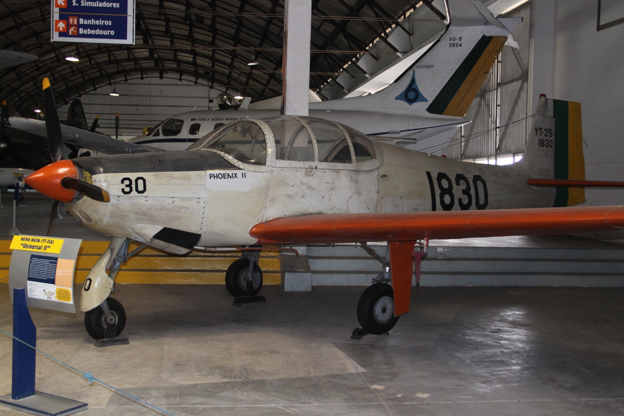 At Campo Dos Afonsos